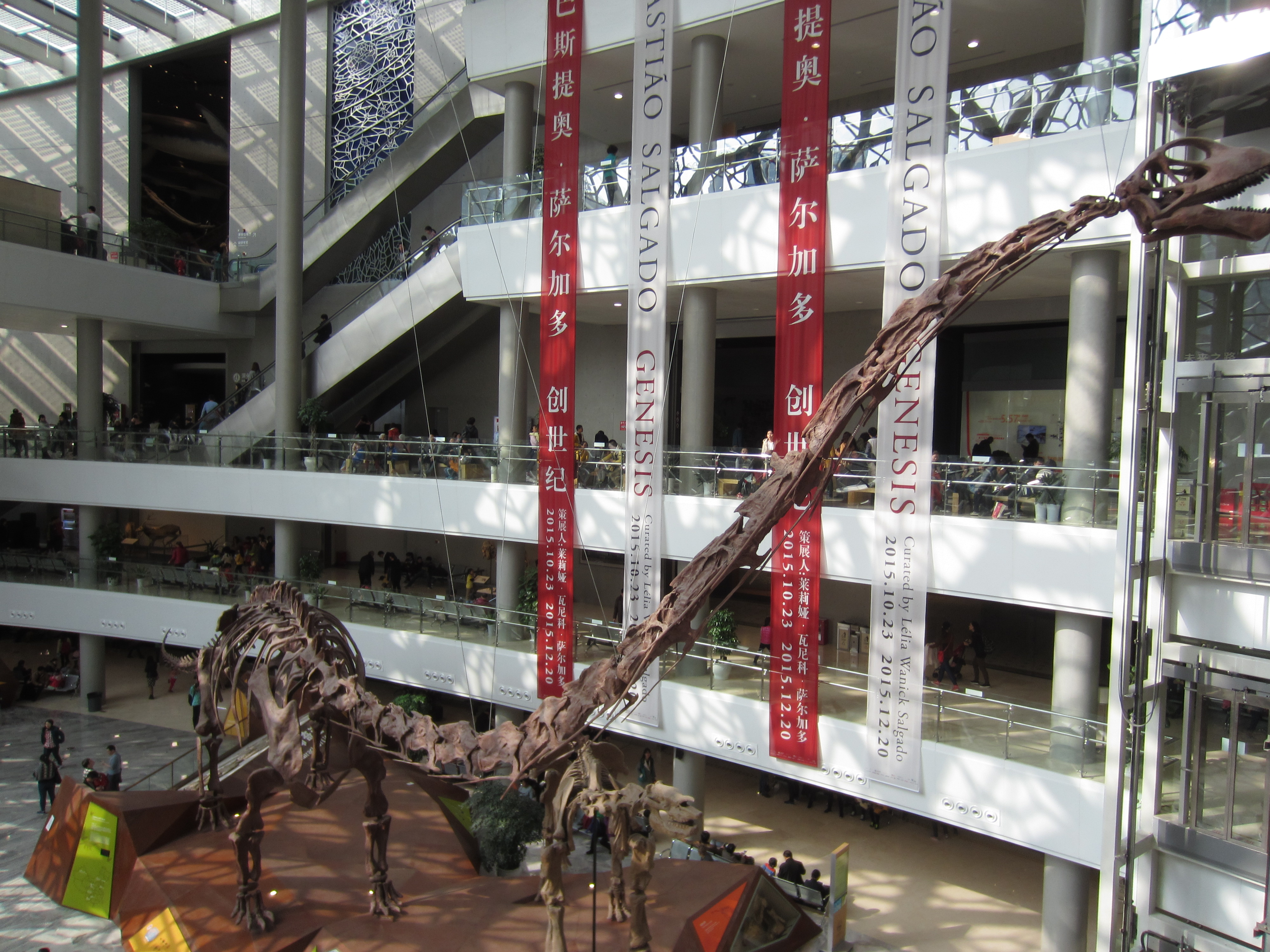 Shanghai Natural History Museum, China (2015)